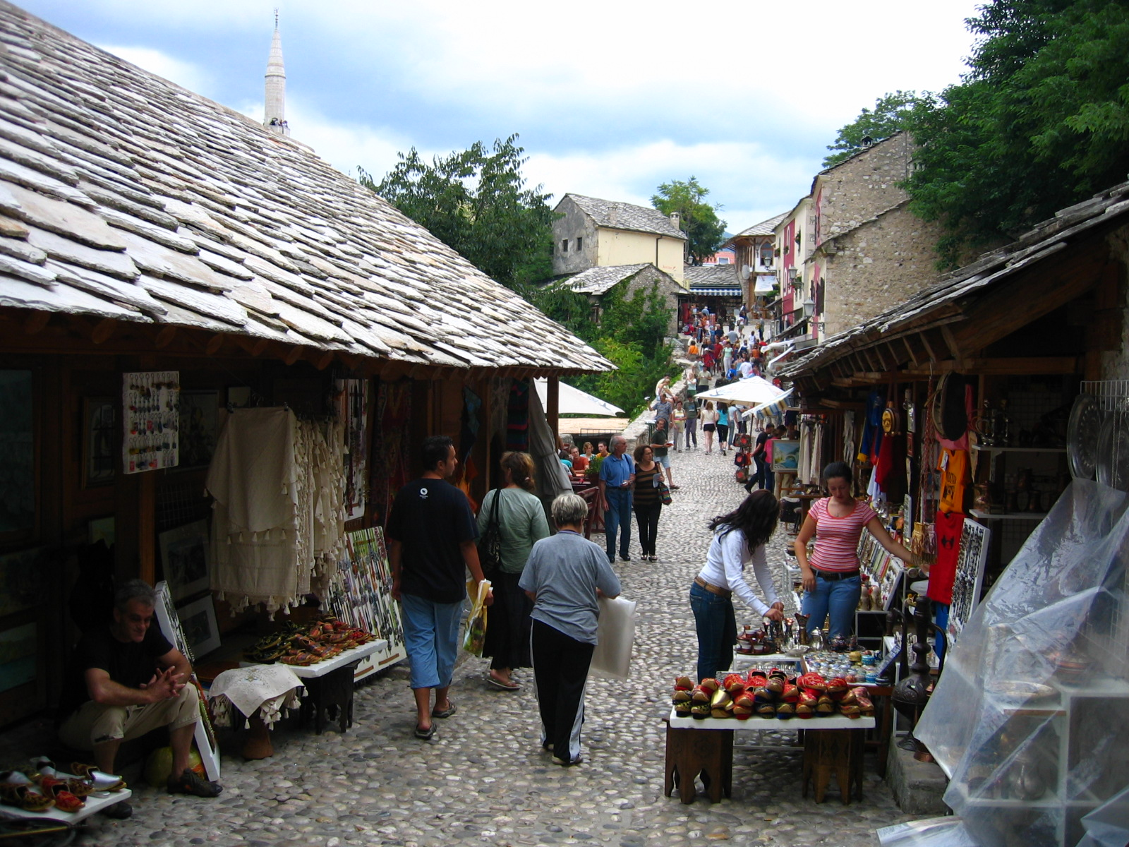 Bazar at the Old Bridge (Stari most) in Mostar, Herzegovina